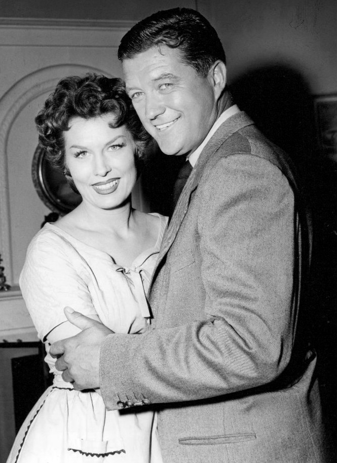 Photo of Dennis Morgan and Jean Willis from the television program Crossroads. Morgan played Reverend Runyon and Willis played his wife. The series was an anthology type, focusing on a clergyperson from a different religious denomination each week.